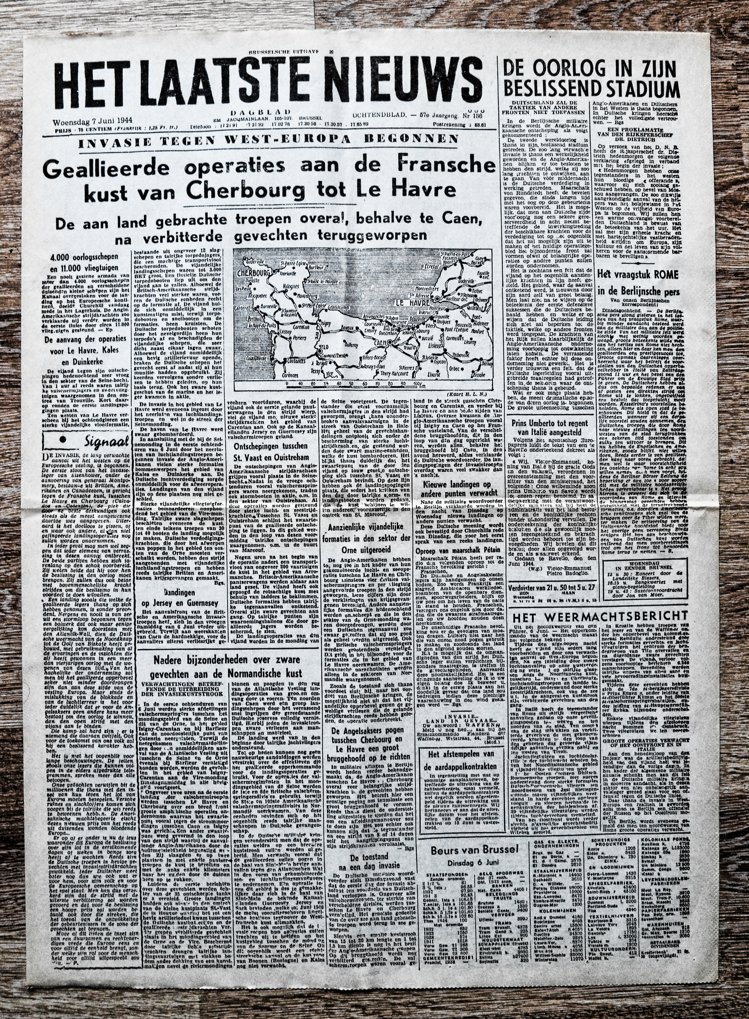 Front page of the Flemish newspaper "Het Laatste Nieuws" June 7 1944